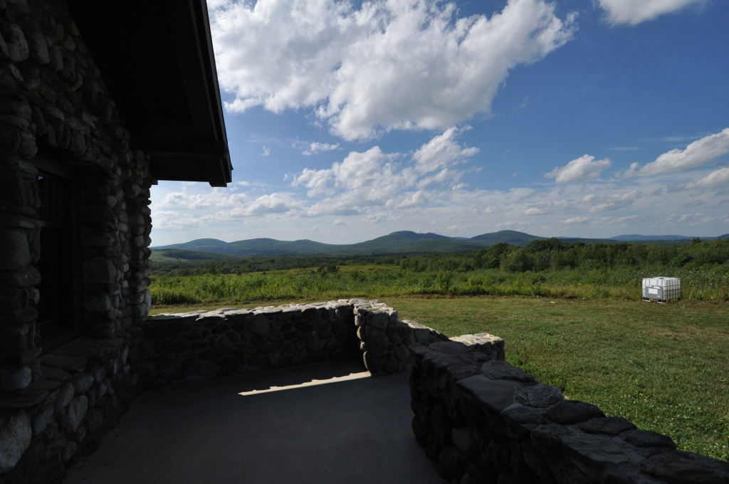 Beechnut Hut Historic District, Rockport, Maine. View north-northwest toward the Camden Hills.